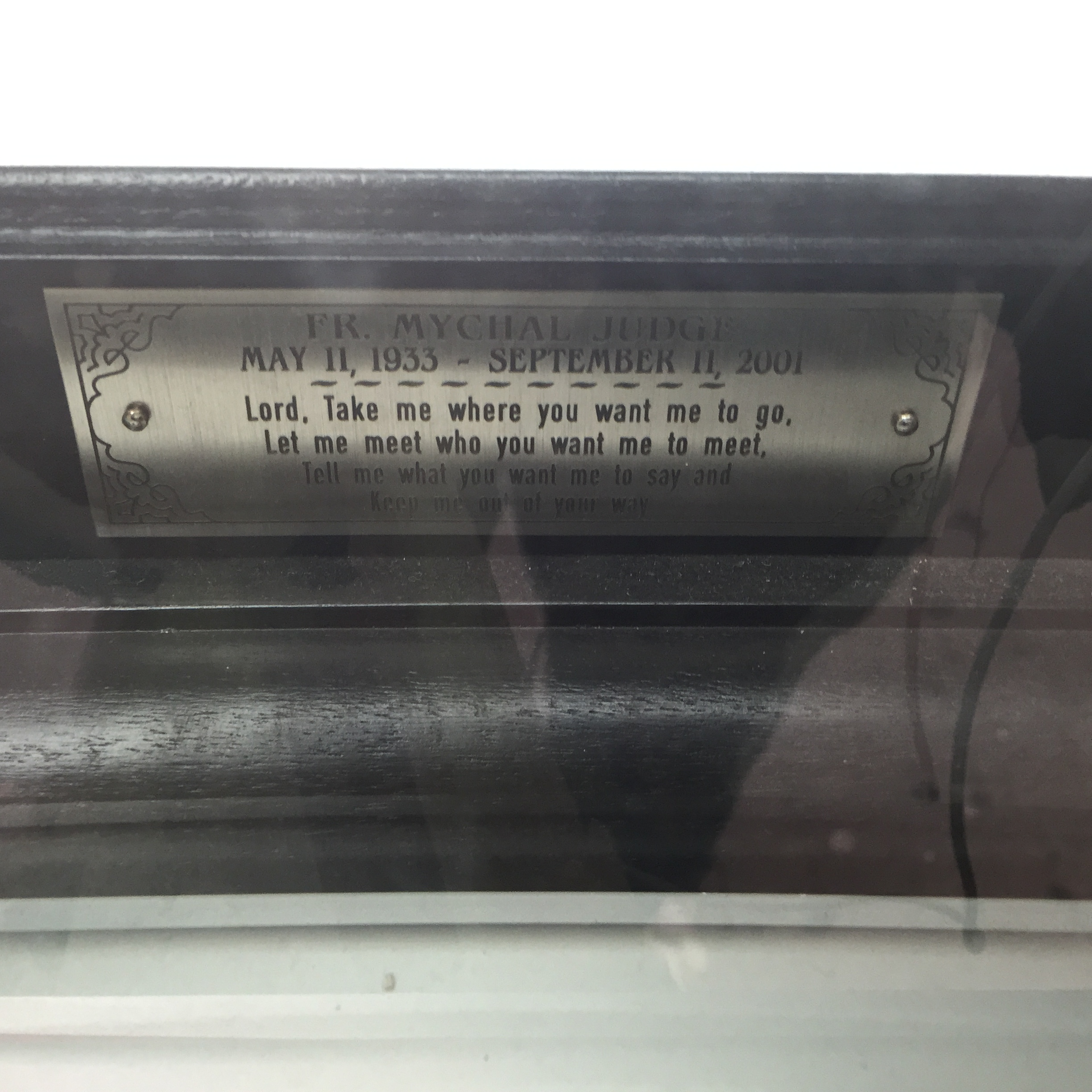 Engine 1 - Ladder 24 (142 W. 31st Street) Battalion 7, Division 1 FR. MYCHAL JUDGE MAY 11, 1933 - SEPTEMBER 11, 2001 Lord, Take me where you want me to go, Let me meet who you want me to meet, Tell me what you want me to say and Keep me out of your way